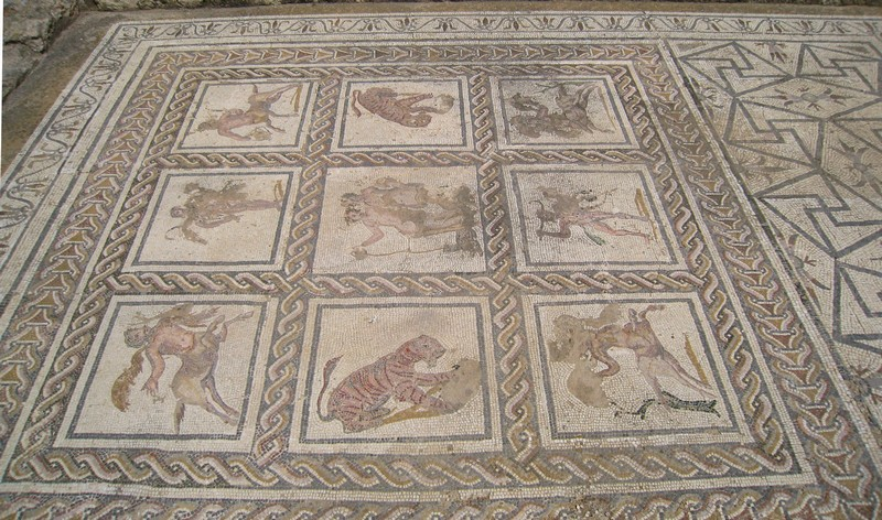 One of the mosaics of Casa de Planetarium in Italica